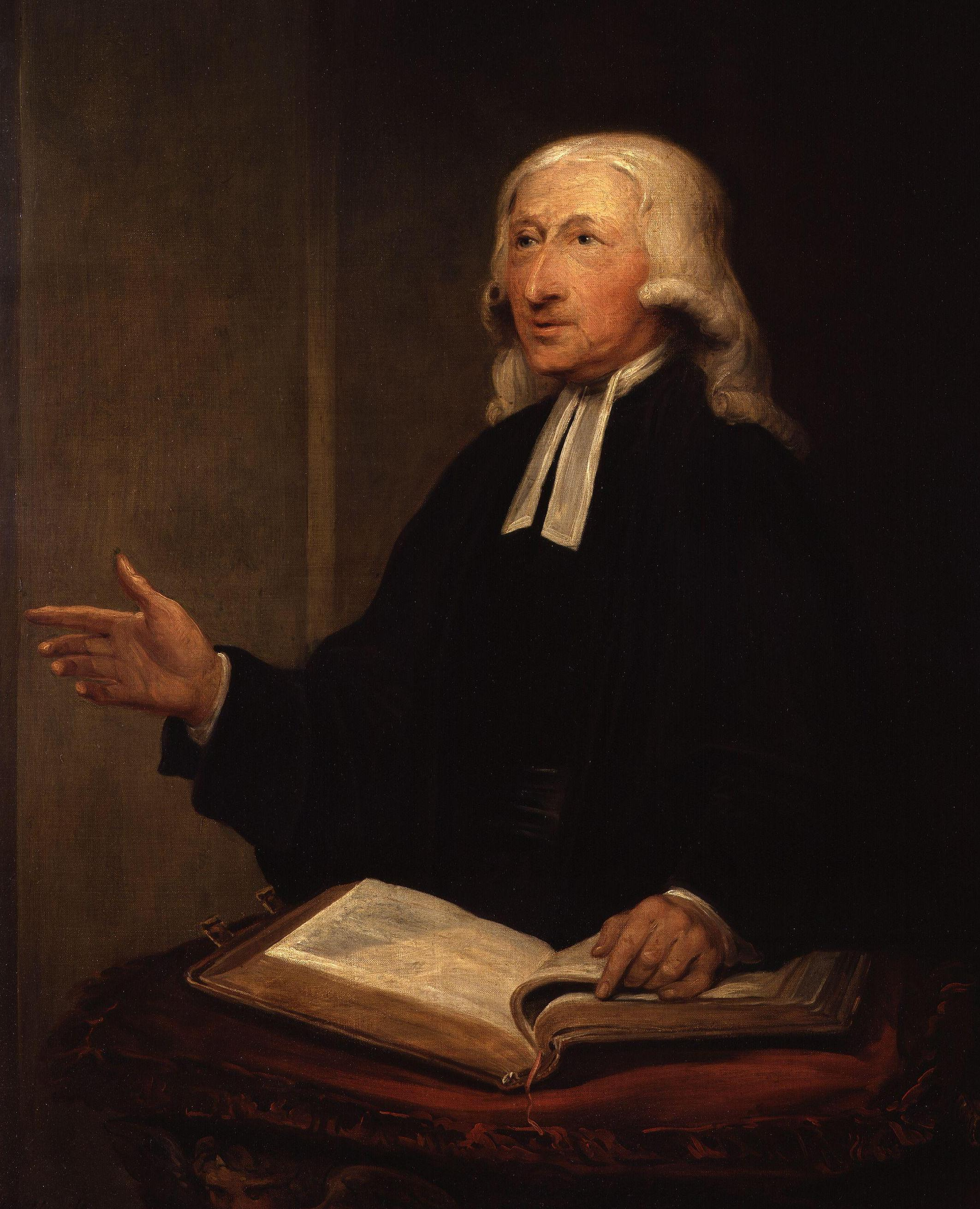 Painting given to the National Portrait Gallery, London in 1871. All images in this batch have been confirmed as author died before 1939 according to the official death date listed by the NPG. Currently on display in John Wesley's House, City Road, London. Said to be the only painting John Wesley ever approved as it is more of a true likeness. The painting was commissioned by James Milbourne, a friend of Wesley who is buried in Wesley's Chapel graveyard.